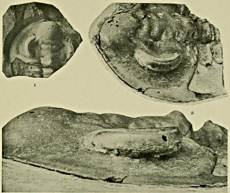 The trilobite Holmia kjerulfi, Order Redlichiida, Family Holmiidae, taken from Johan Kiaer (1916) The Lower Cambrian Holmia Fauna at Toemten in Norway. Skrifter - utgit av - Videnskapsselkapet i Kristiana, pp. 129 (Pl. VII-1: Canidium with glabella and left side almost unpressed. Eye excellently preserved. Holmia shales Toemten. Krist. Univ. Pal. Mus. Cat. A. K. nr. 12; Pl. VII-2: Same specimen showing eye seen half from above; Pl. VII-3: Same specimen showing eye from side)